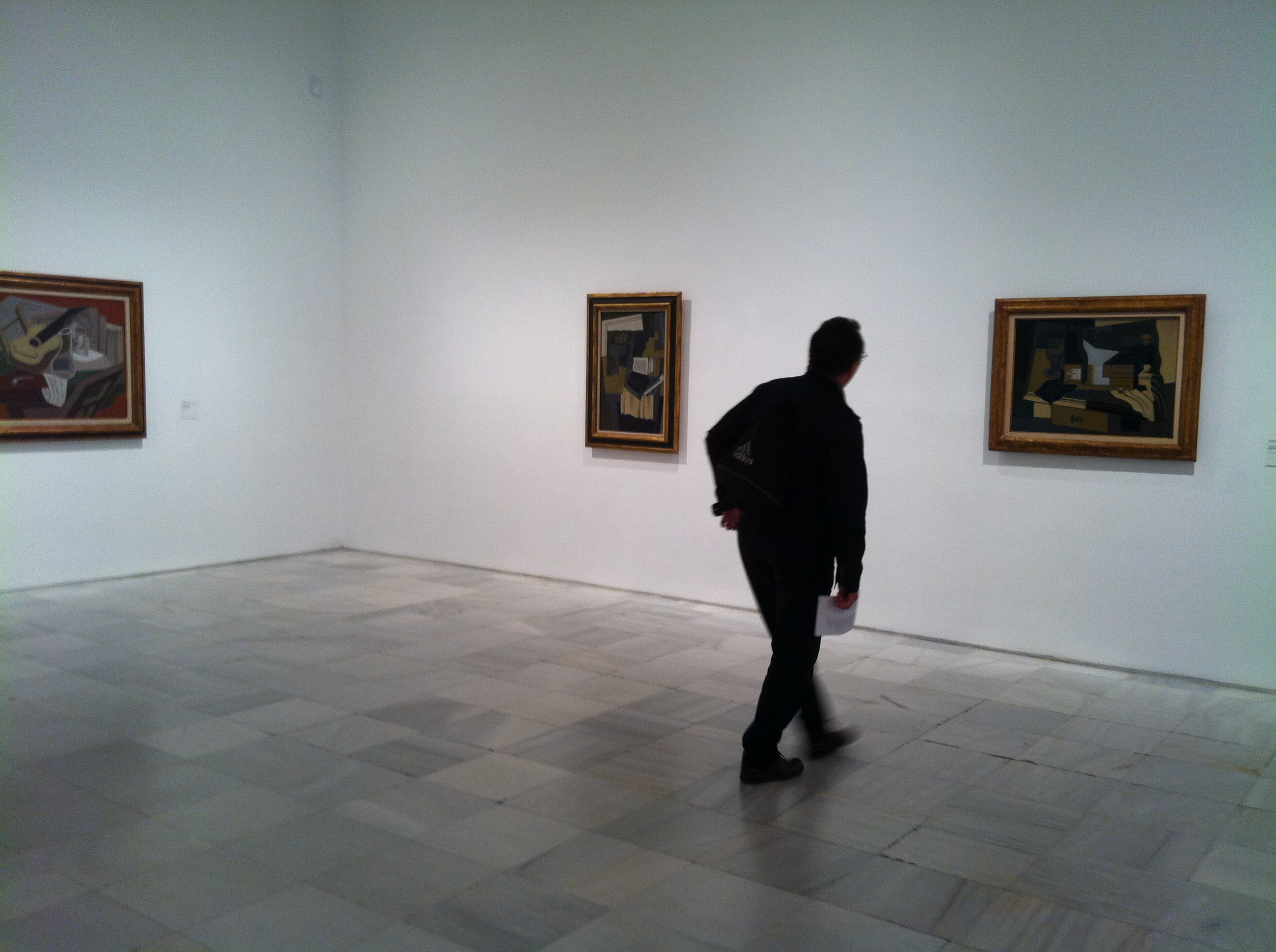 Interior views of Museo Reina Sofia